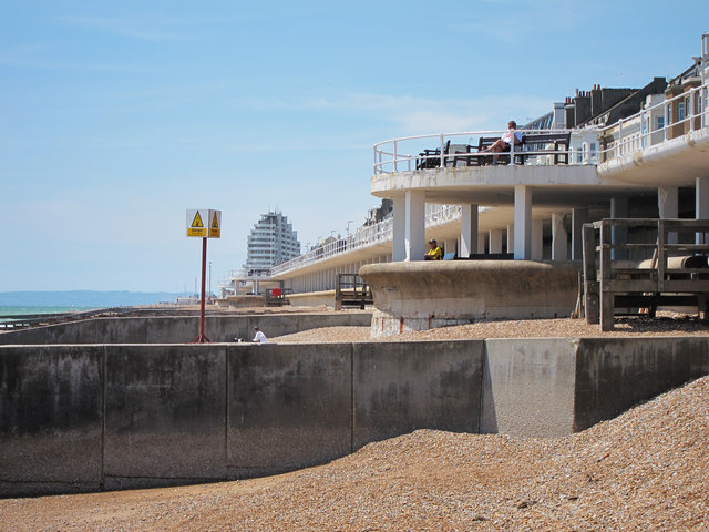 Bottle Alley, Promenade & Beach